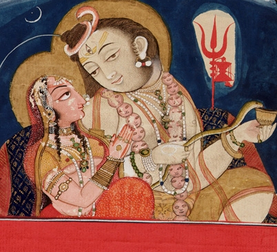 Cropped version of image Shiva and Parvati.jpg on wikimedia Commons